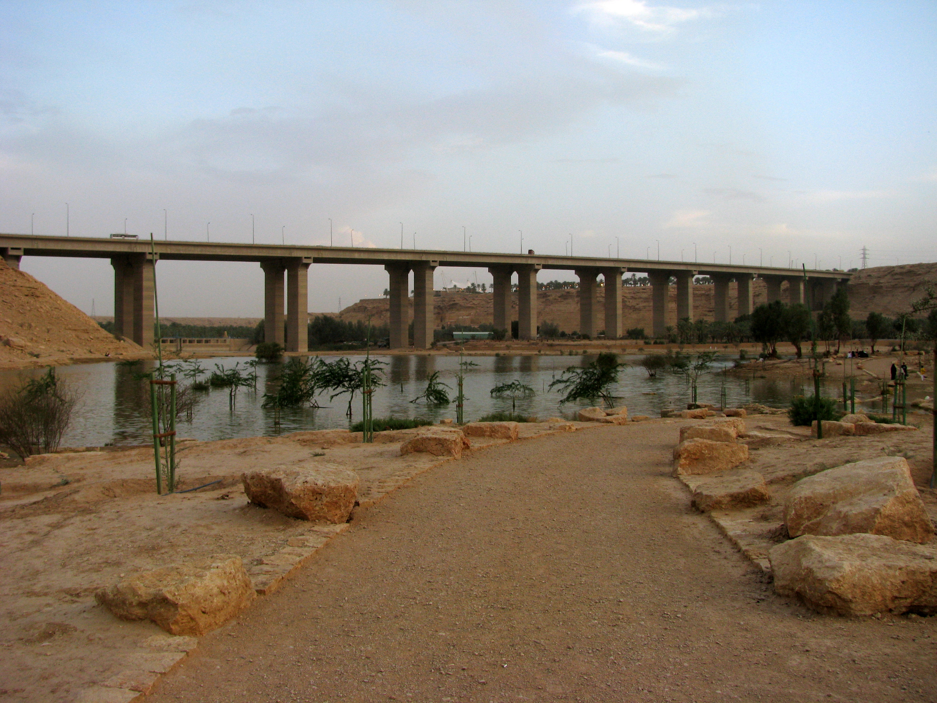 A large and scenic lake had formed after the rains, and there were several families enjoying the unusual experience of a lake in Riyadh